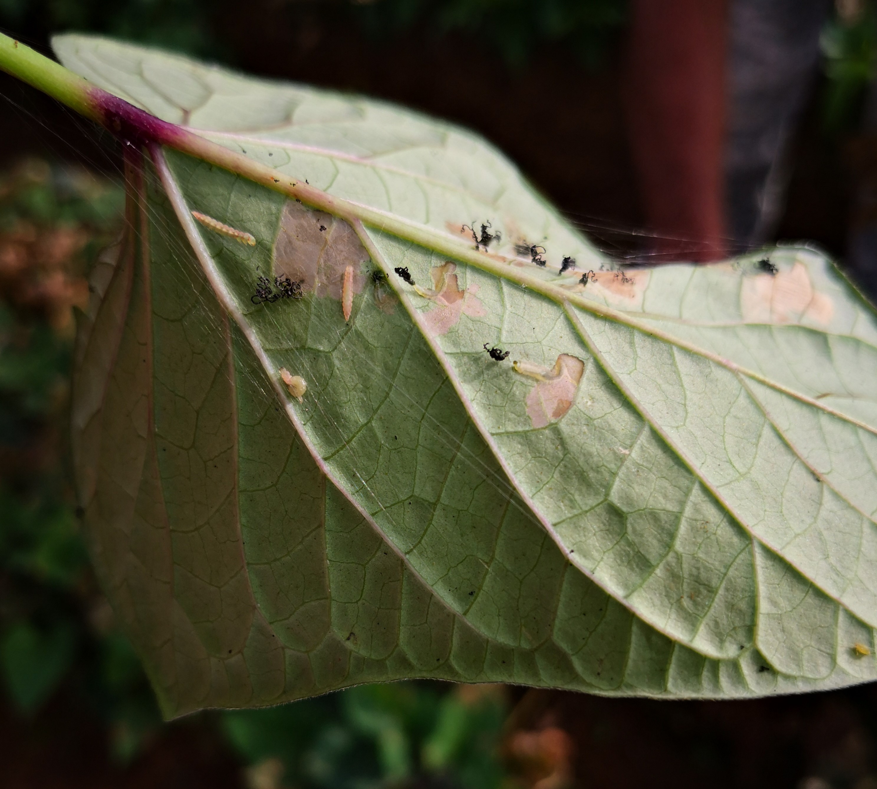 Abaxial side of a sweetpotato leaf showing leaf miner larvae, webbing, and frass.